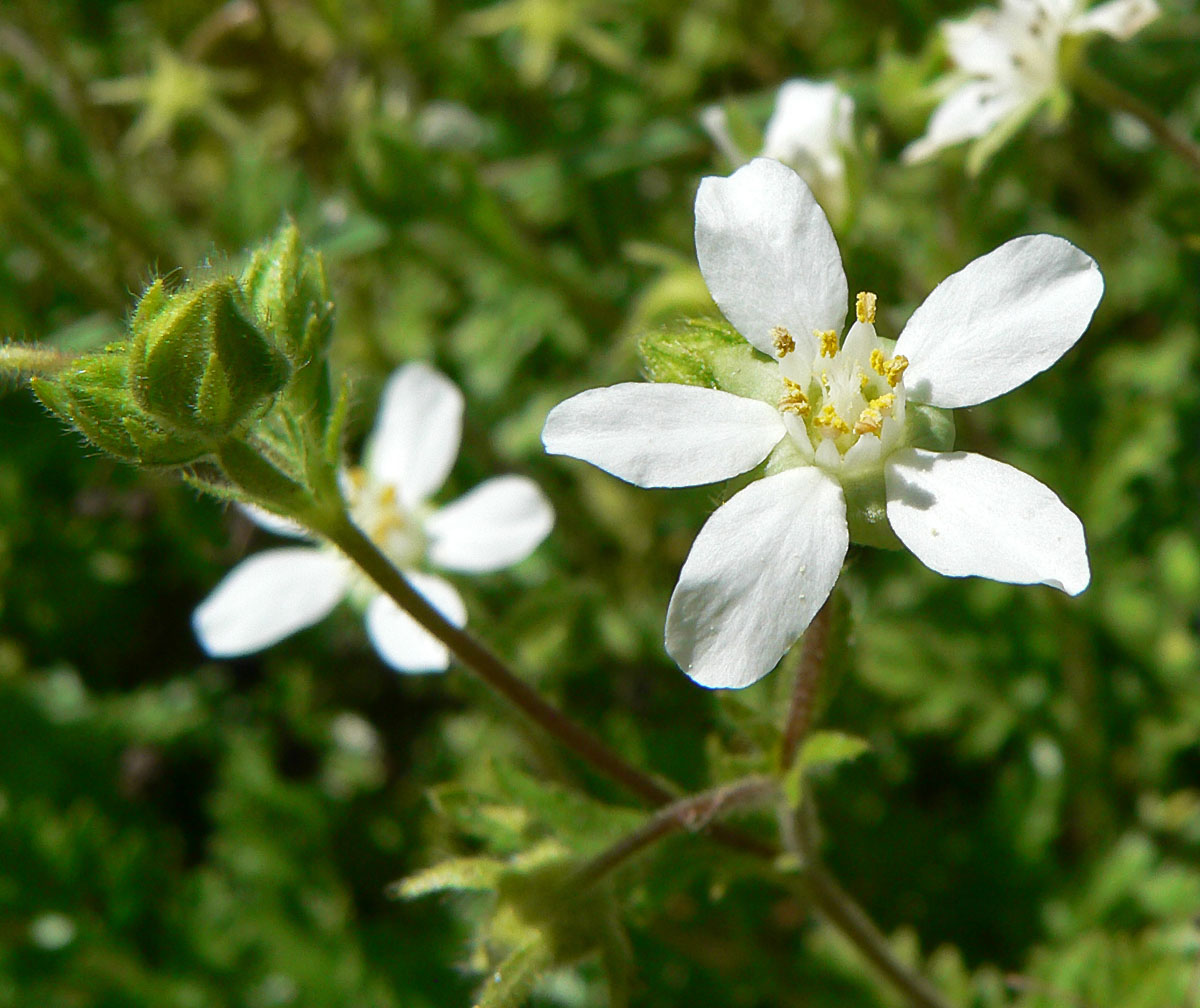 Potentilla parryi (syn. Horkelia parryi) at the University of California Botanical Garden, Berkeley, California